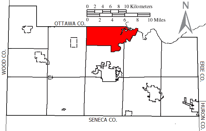 Made by the US Census and modified by User:Frank12